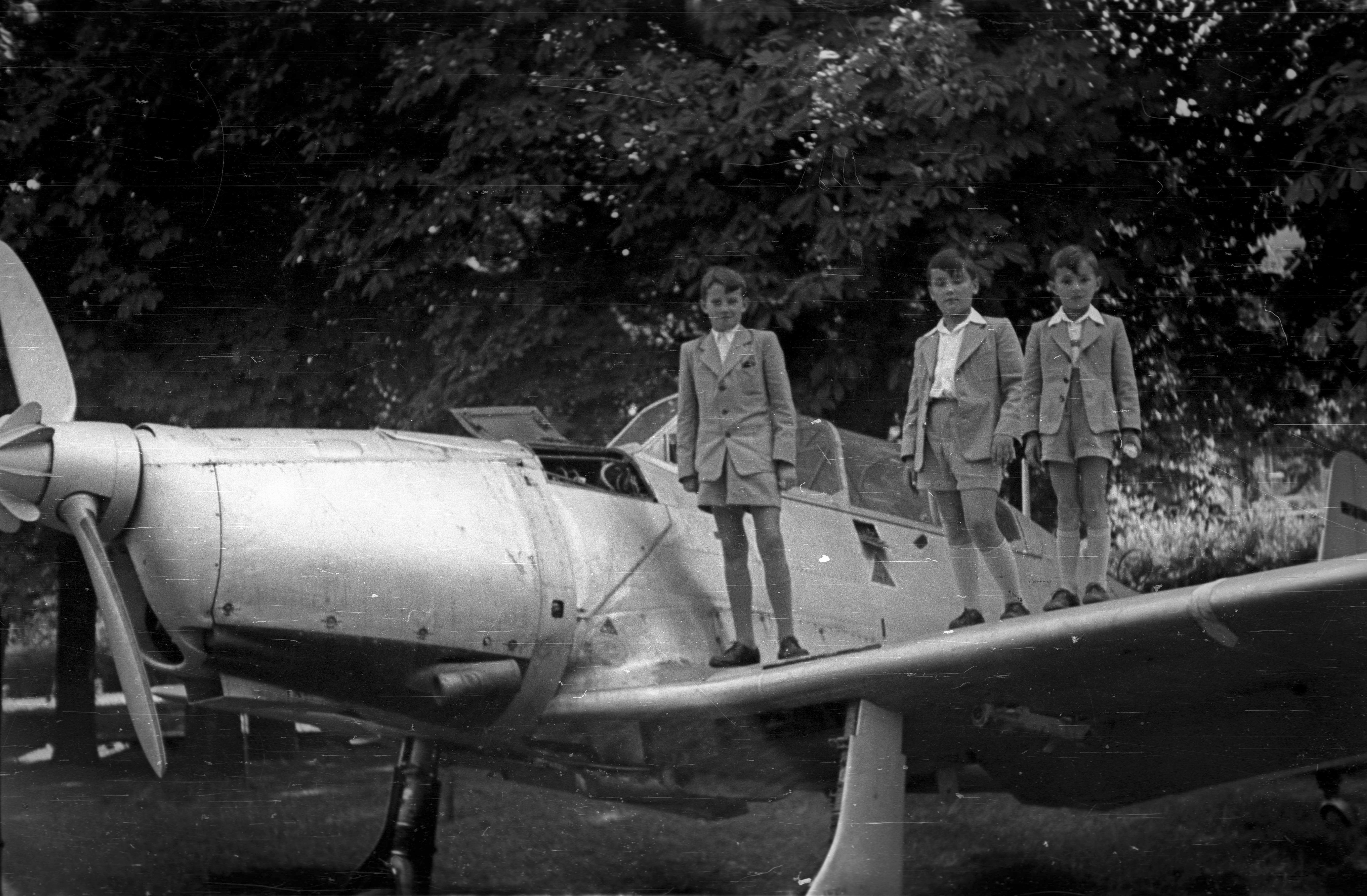 Probably Avia C-2 plane (Czech-built Ar 96)